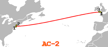 Route of the AC-2 submarine communications cable. For more information on the numbered landing points, see main article.